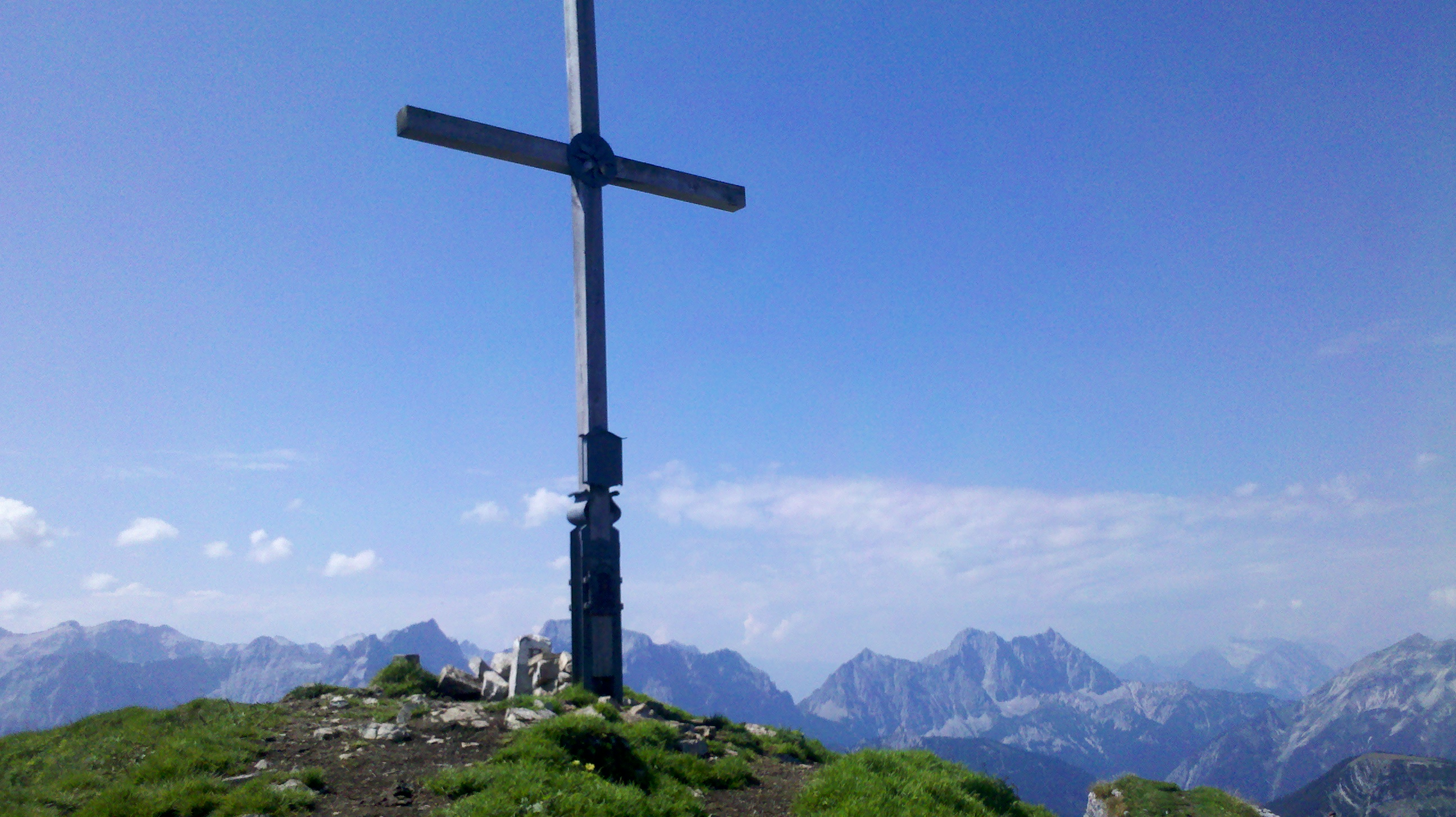 Schafreiter summit cross